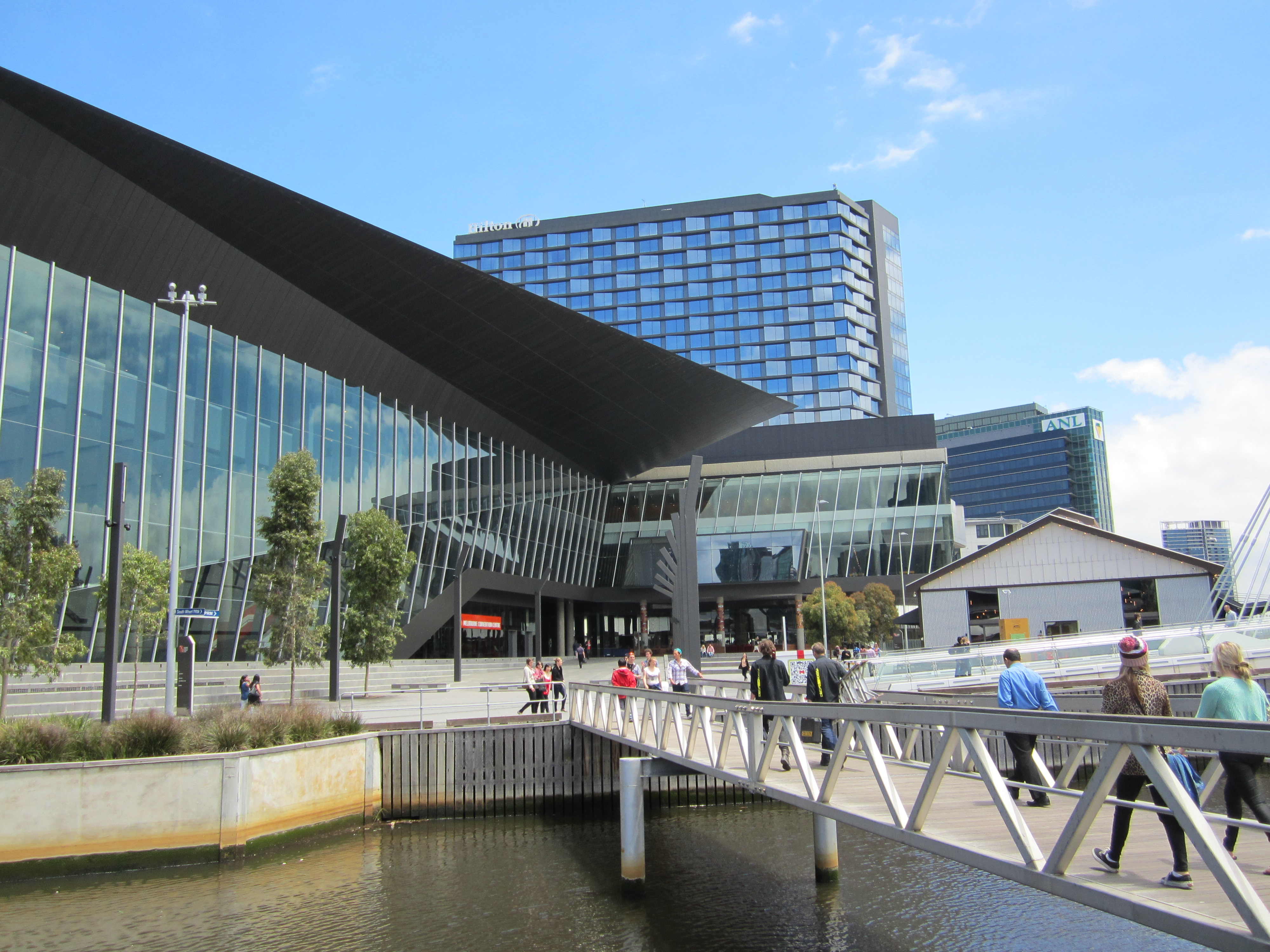 View of the Melbourne Conference Centre from the east